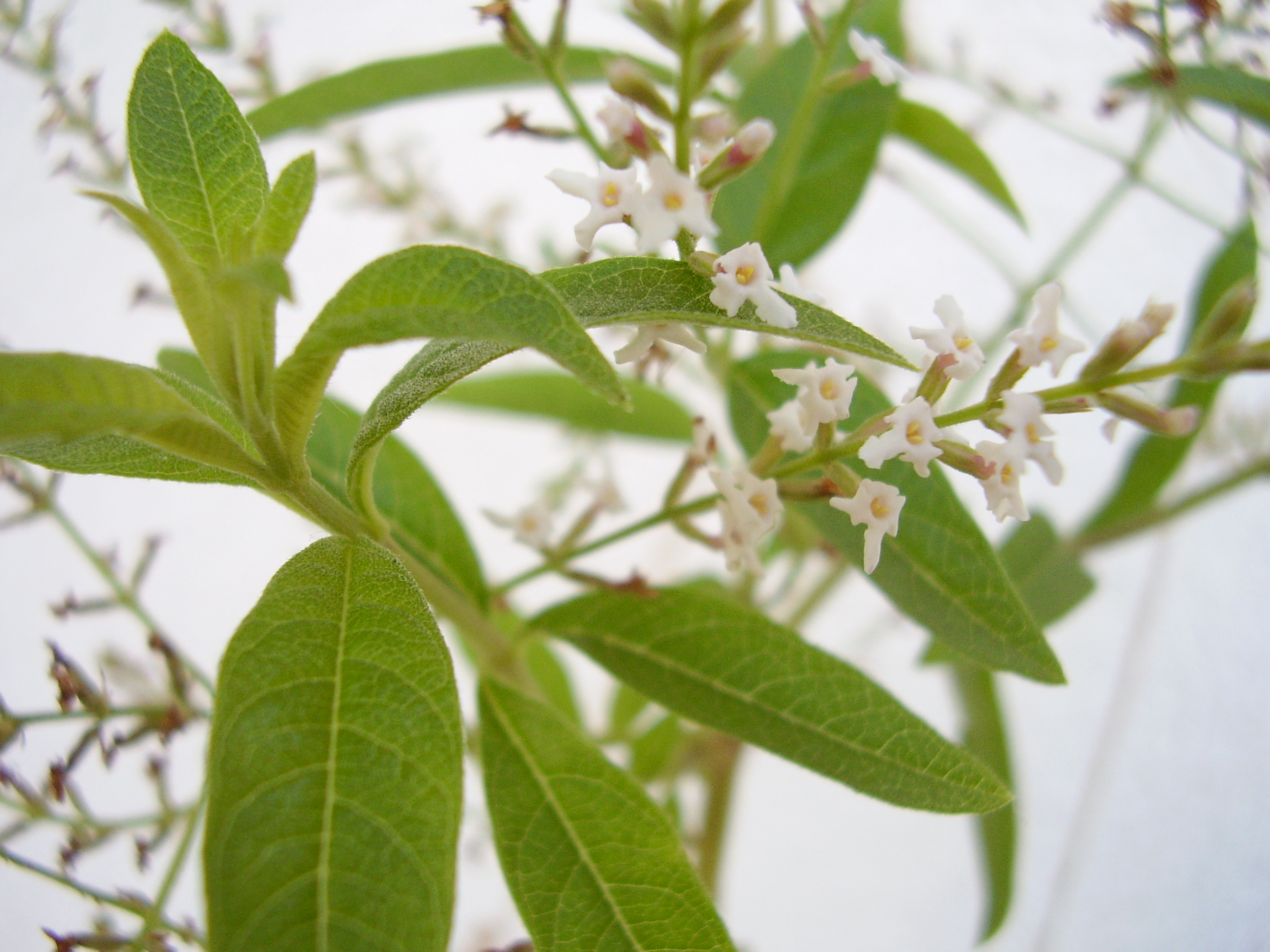 A flowering Lemon verbena, Aloysia triphylla, photographed in Karkur, Israel.